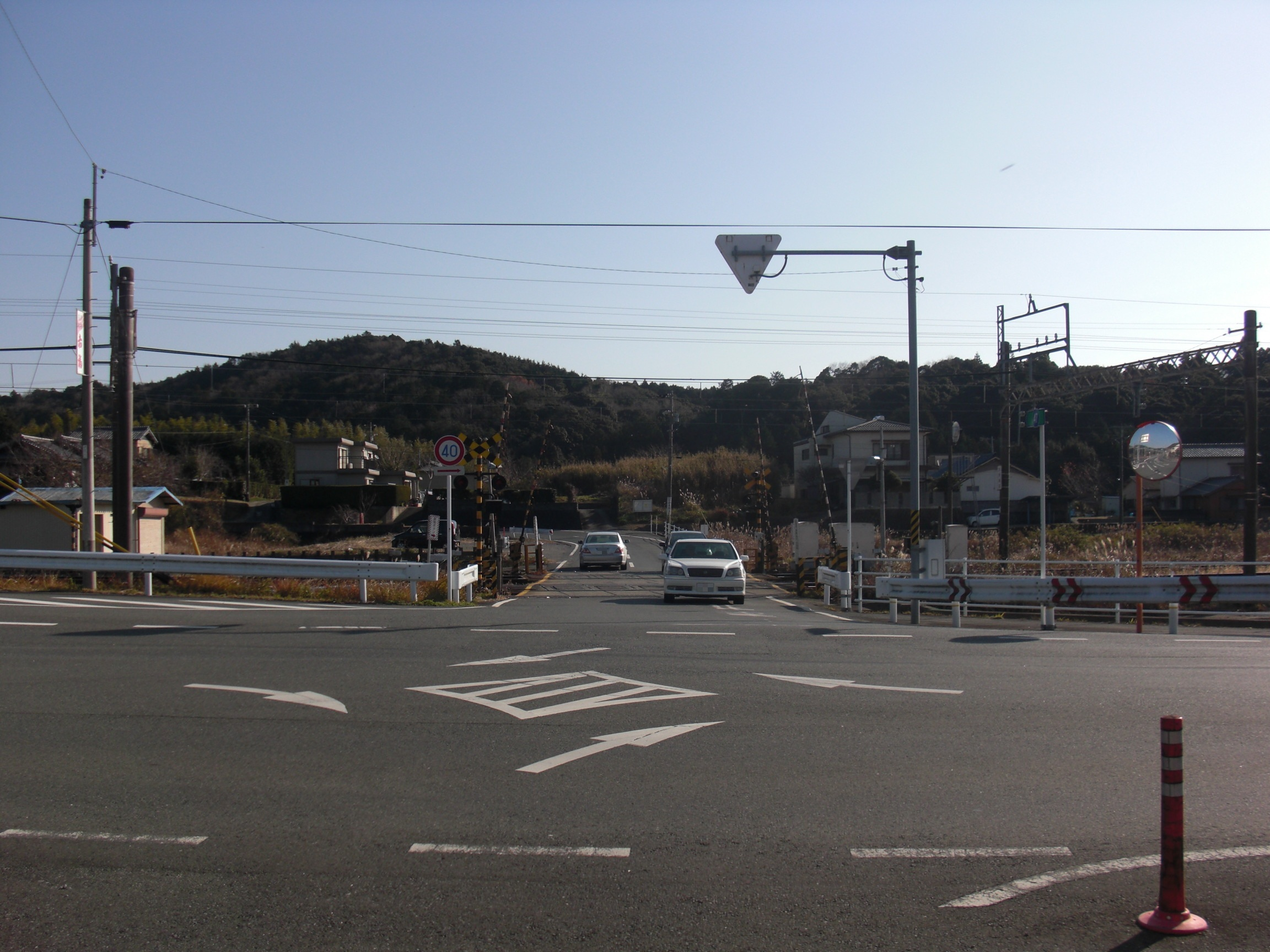 This is the end point of mie prefectural road No. 47 Toba Isobe Line. Which is located in Shima, Mie, Japan.